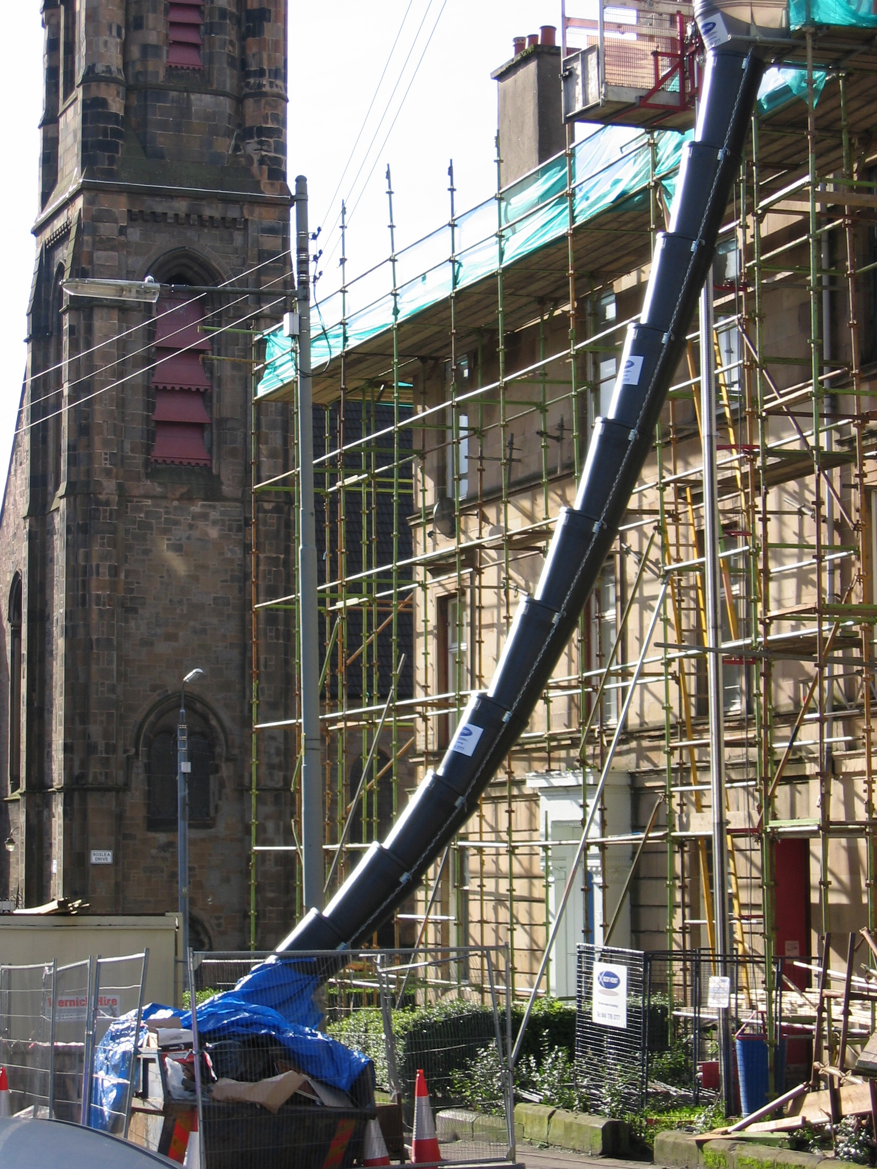 Reroofing of a tenement block on Armadale Street, Dennistoun. Primarily illustrative of the slide construction in the foreground.